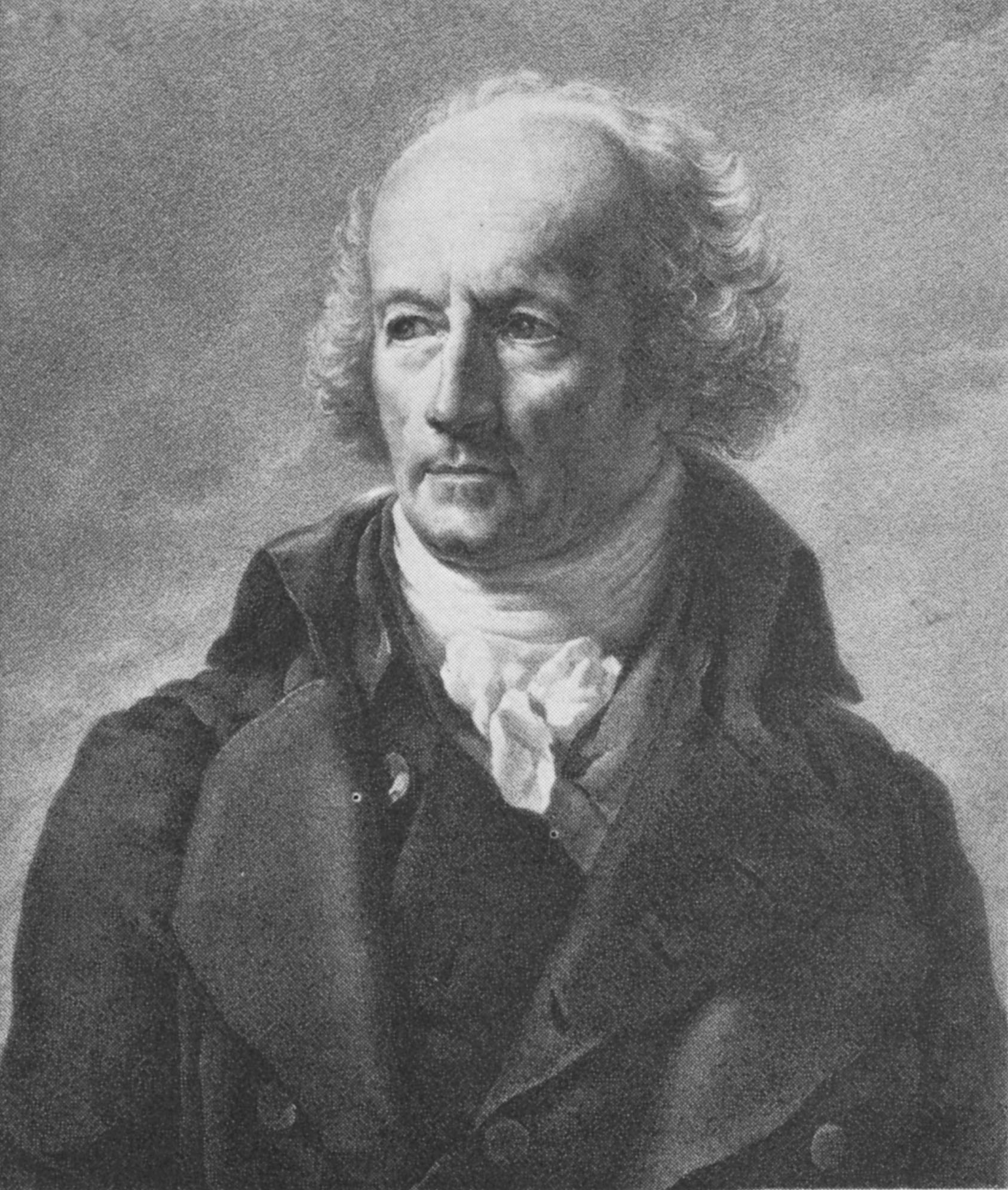 A late portrait of the French architect Alexandre-Théodore Brongniart